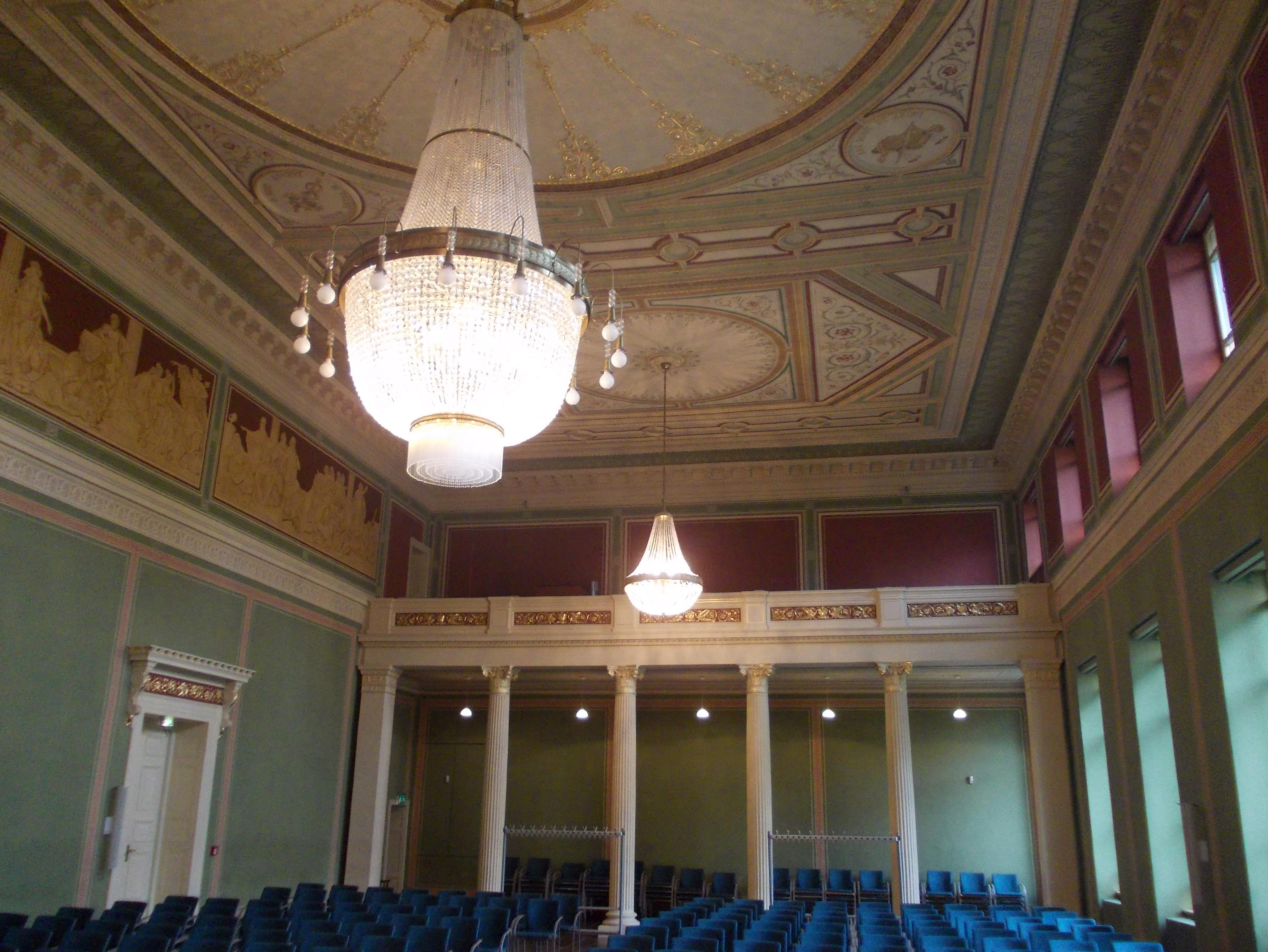 Great hall of the Lions Building of the university of Halle (Saale), Saxony-Anhalt